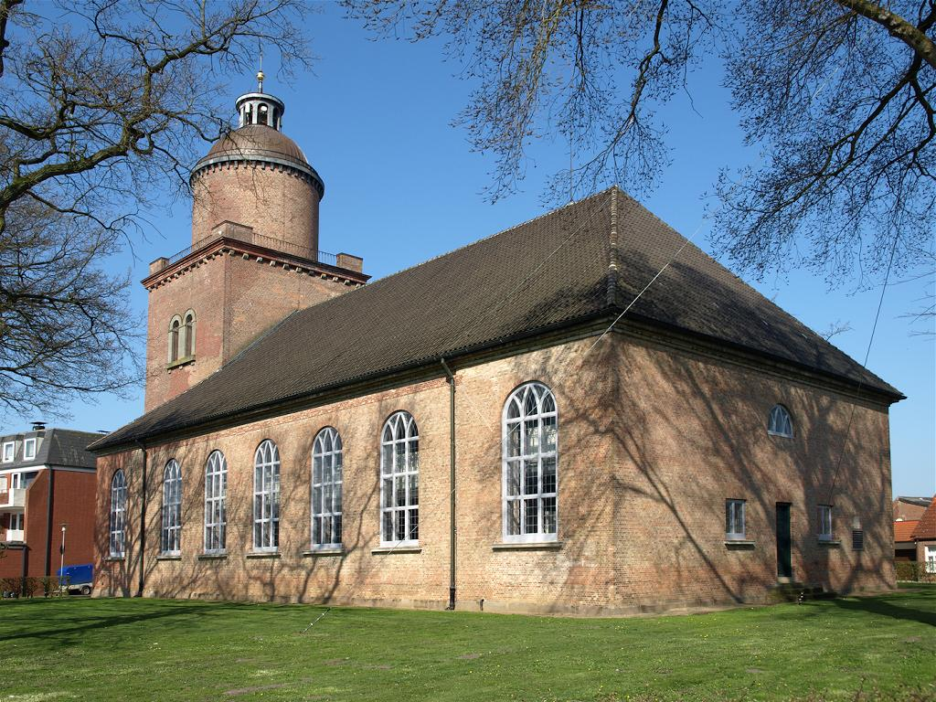 Krempe (Schleswig-Holstein, Germany),Kirche , photo 2009